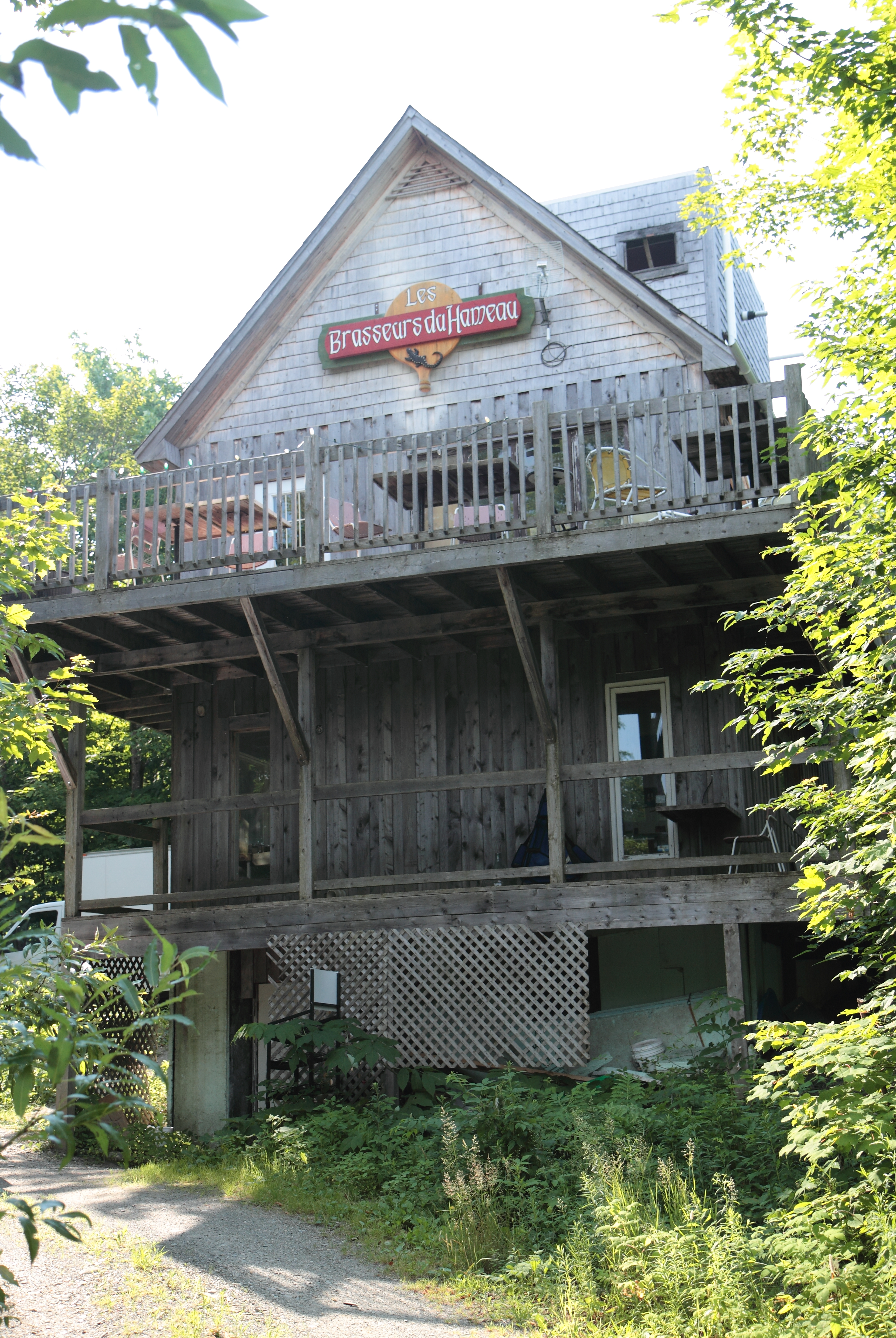 Les Brasseurs du Hameau brewery, Ham-Sud, Quebec, Canada